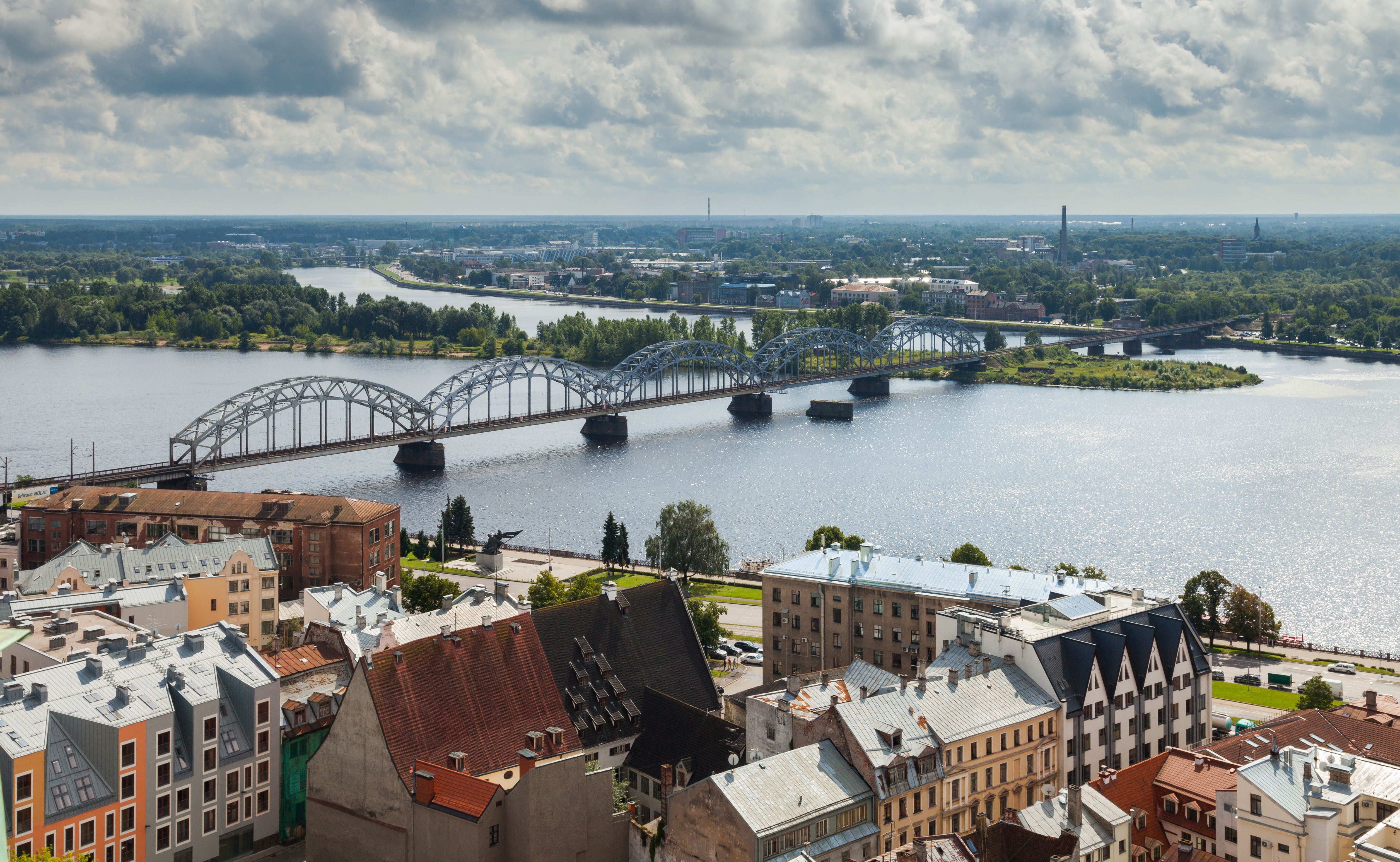 View of the Railway Bridge from Saint Peter's church, an iron bridge over the Duagava river in Riga, capital of Latvia. The current bridge of a length of 328m was inaugurated in 1914 and rebuilt after the World Wars.